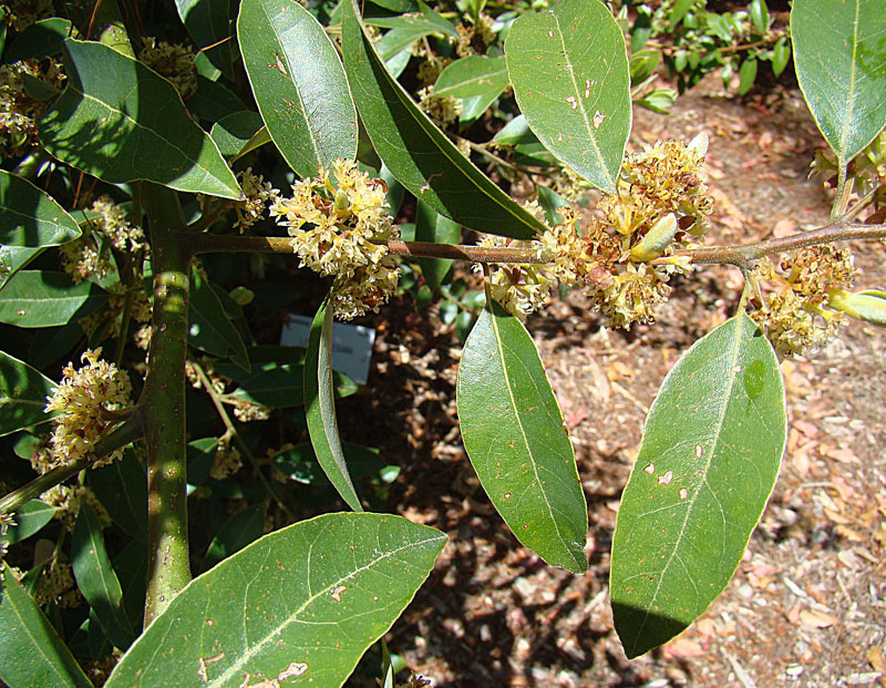 Known as Laurelillo in its range from Mexico to Costa Rica. UC Berkeley Botanical Gardens. In context at